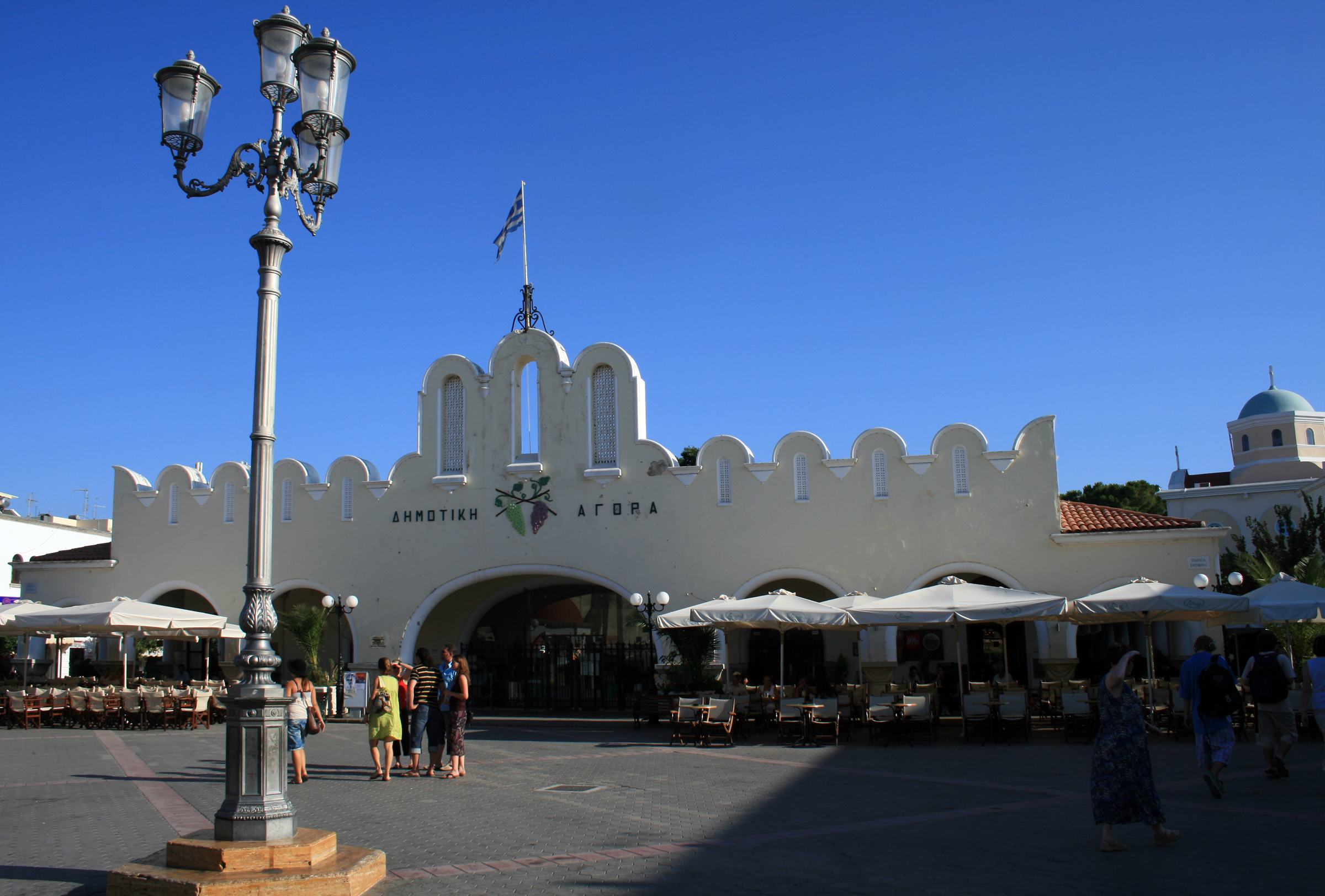 Building of old marketplace Agora in town Kos on Kos island, Greece